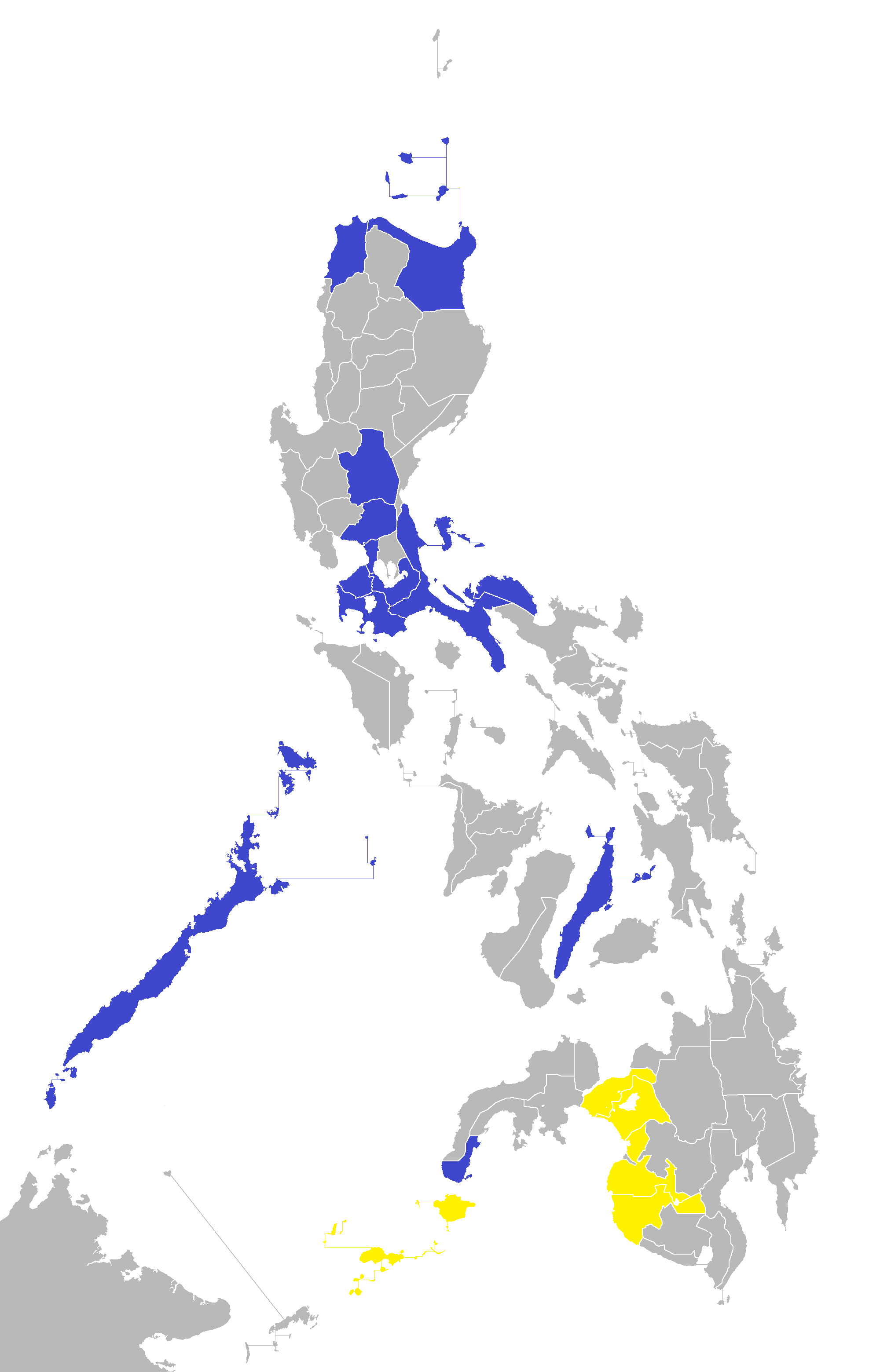 Provinces which have precincts included in the Pimentel III vs. Zubiri Senate Electoral Protest, using a blank map of the Philippines, with provincial borders created by User:TheCoffee and released under the GFDL to public domain.